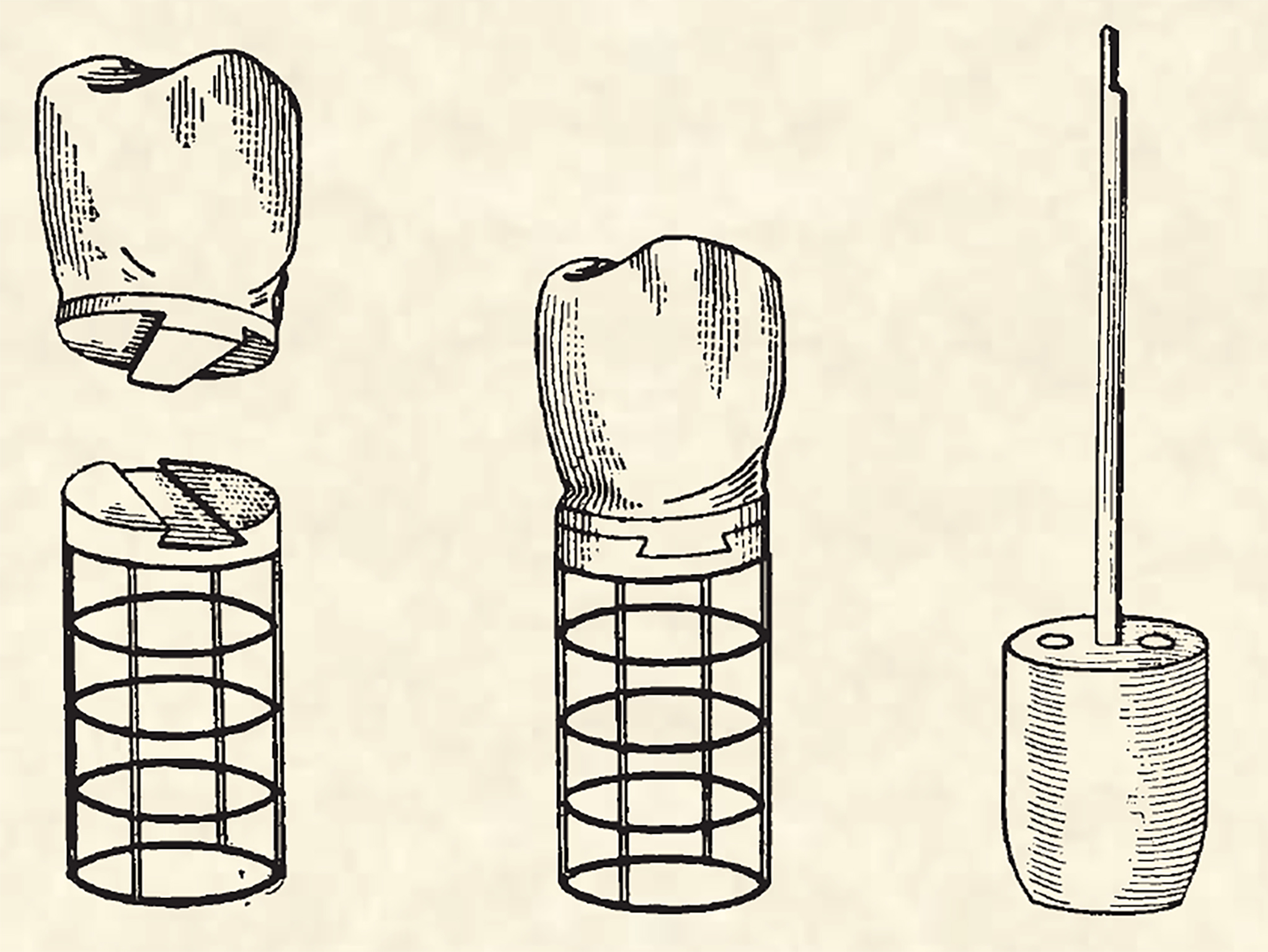 Early dental implant